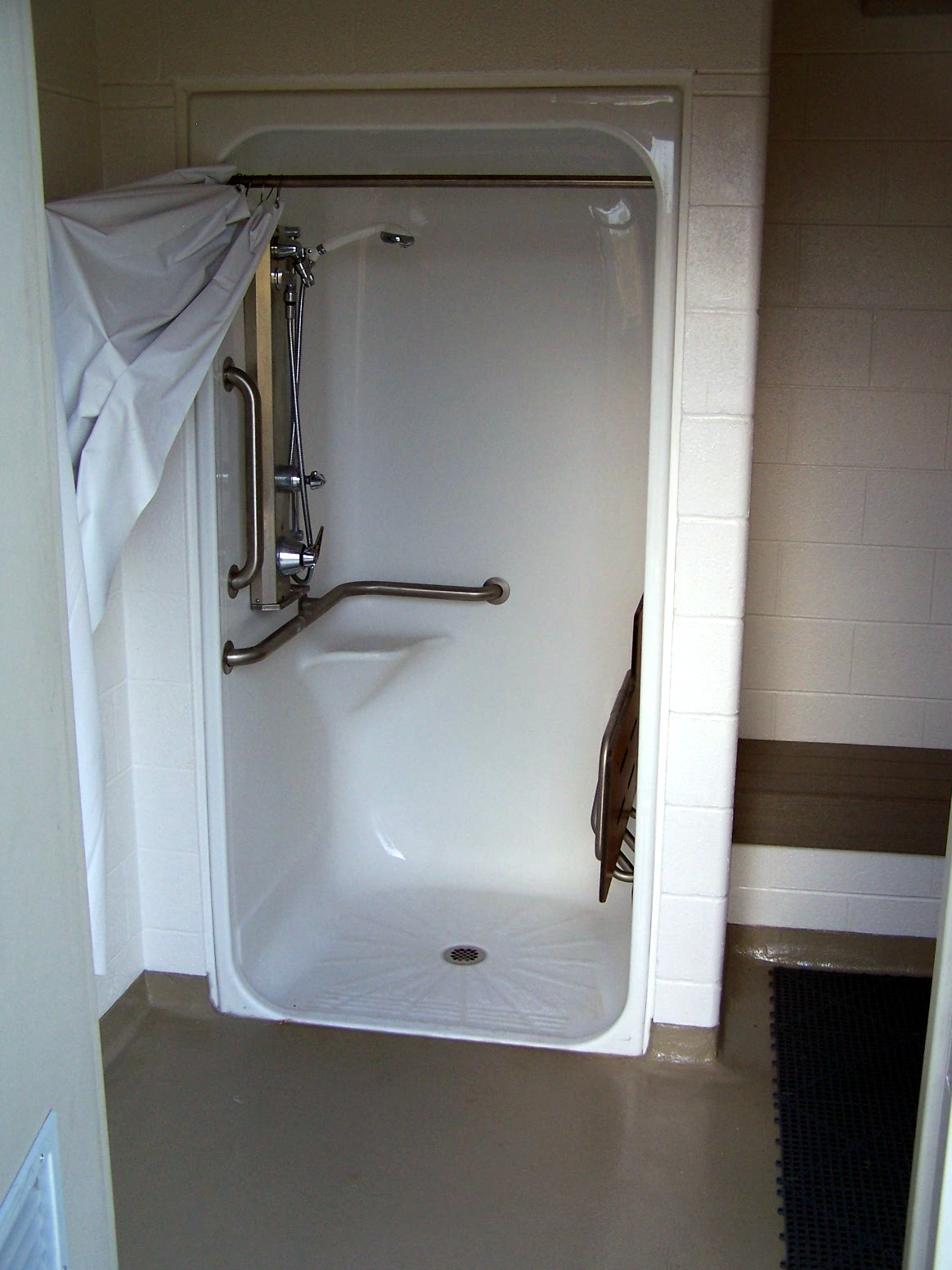 Accessible shower stall with built-in seat at a State park in Virginia.